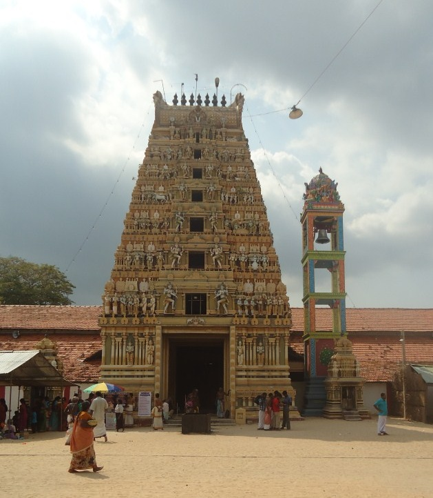 Famous Hindu temple in Jaffna, Srilanka